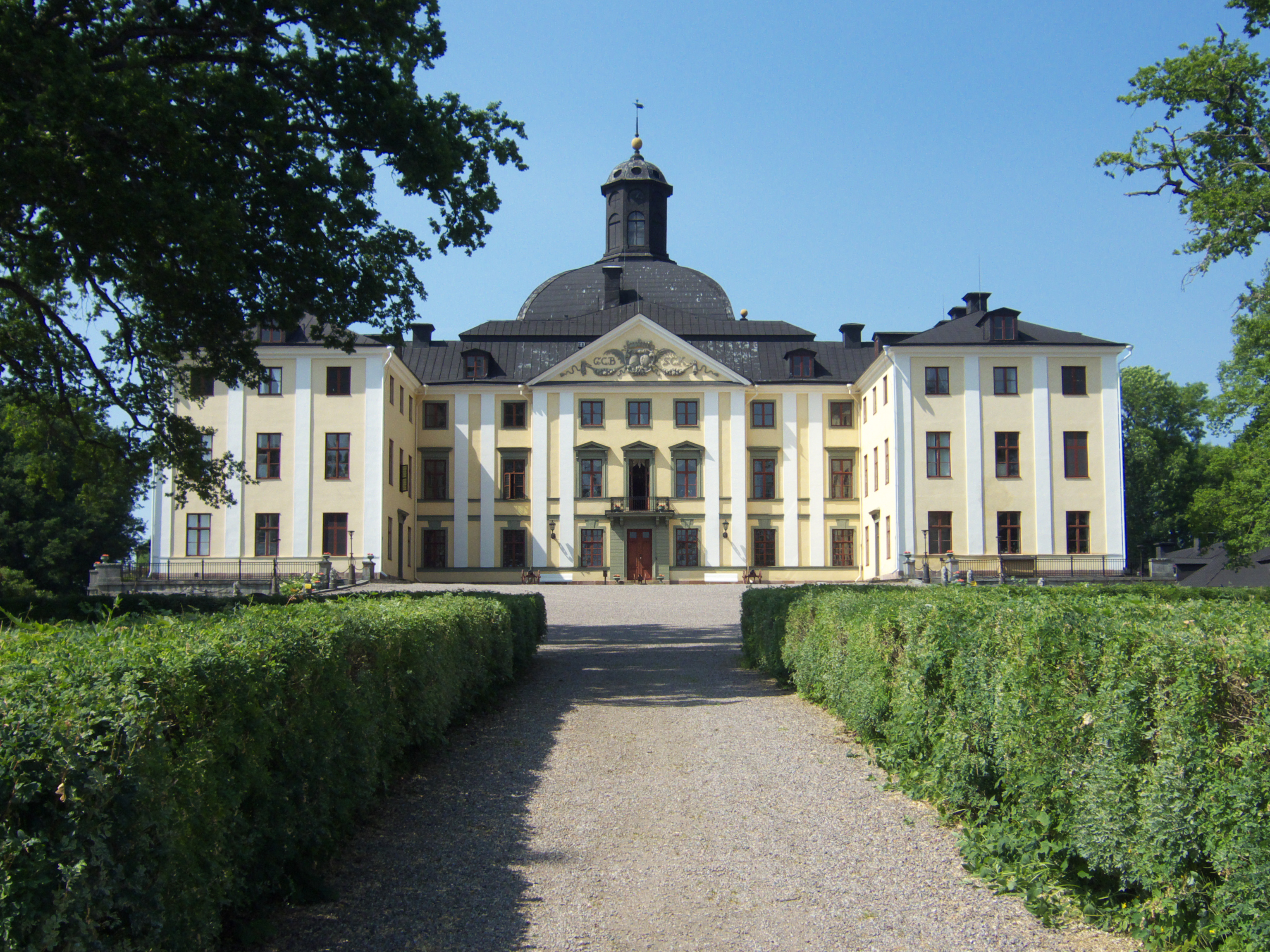 Örbyhus castle